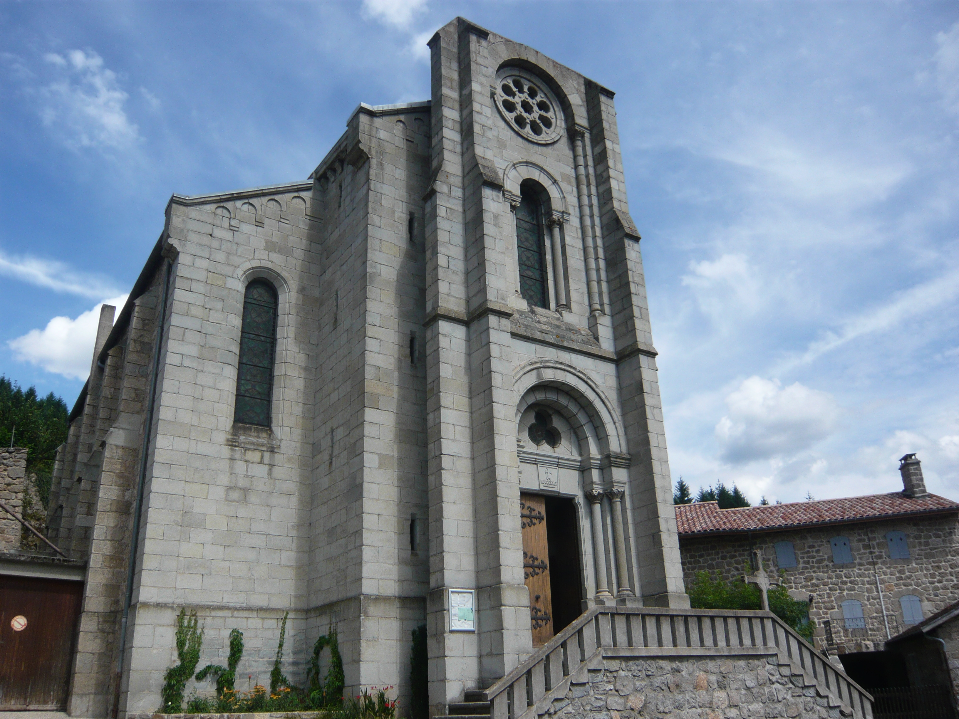 The Church of Lachapelle-sous-Chanéac (Ardèche, France) - July 2010